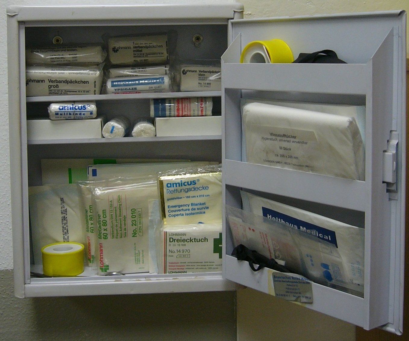 A tiny cabinet with utensils for First aid.